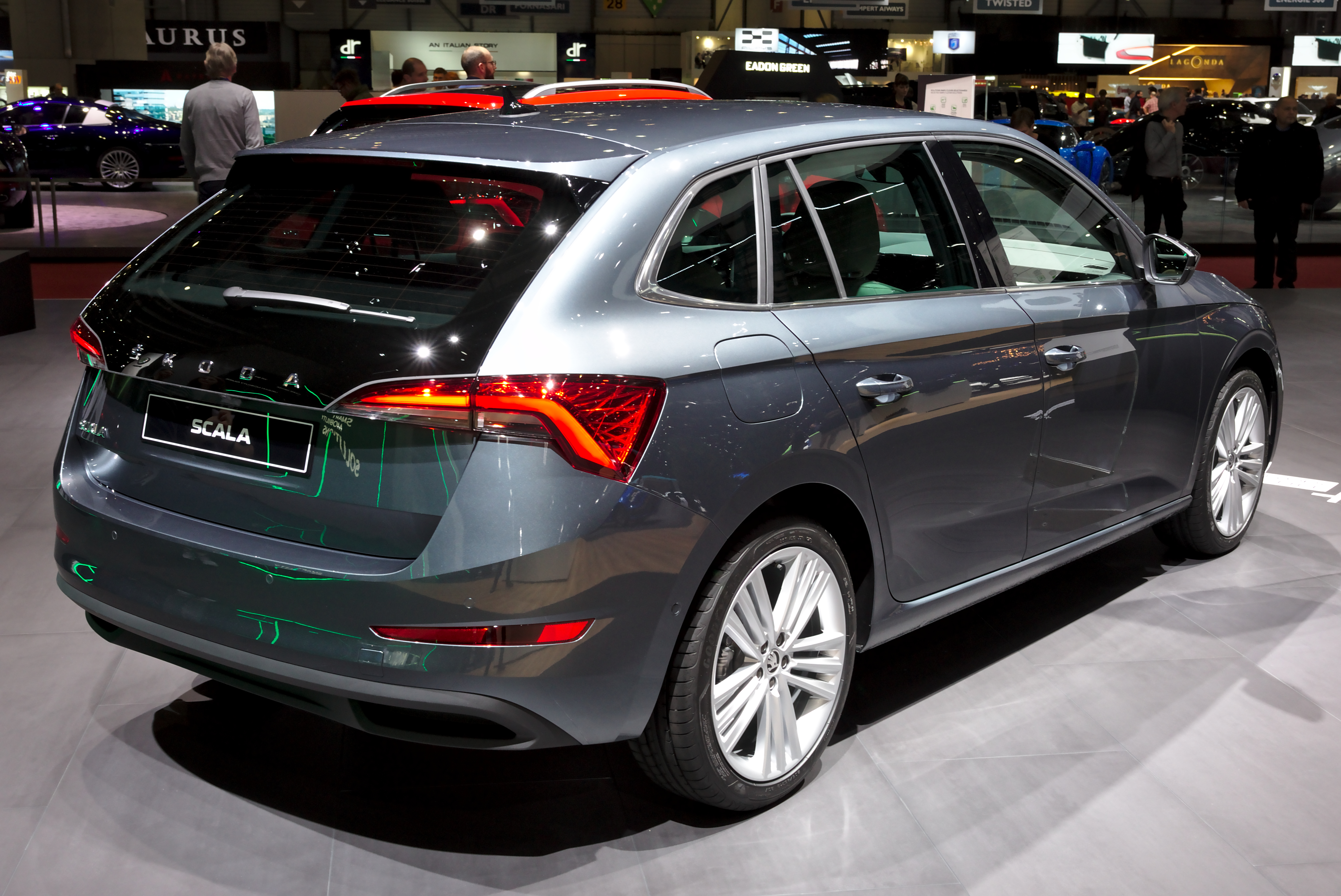 Škoda Scala at Geneva Motor Show 2019